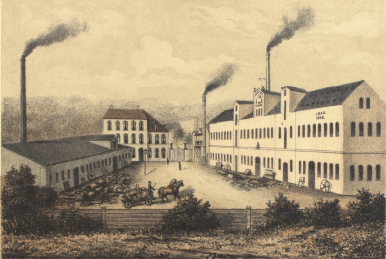 J. G. A. Eickhoffs Maskinfabrik at Vesterbrogade 97 in Copenhagen, Denmark